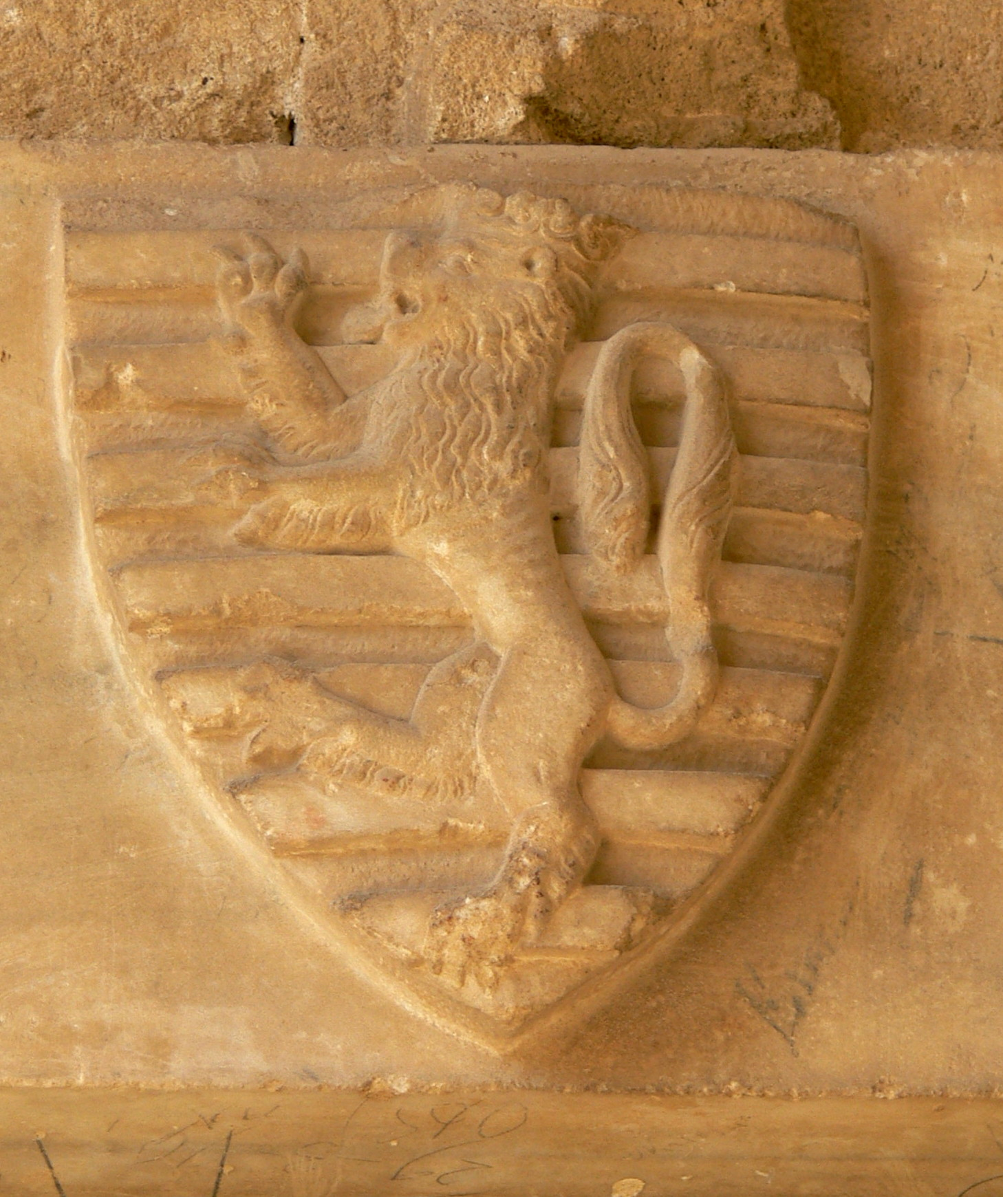 Bellapais monastery ( Northern Cyprus ). Refectory ( 14th century ): Coats of arms of the Lusignan, kings of Cyprus.